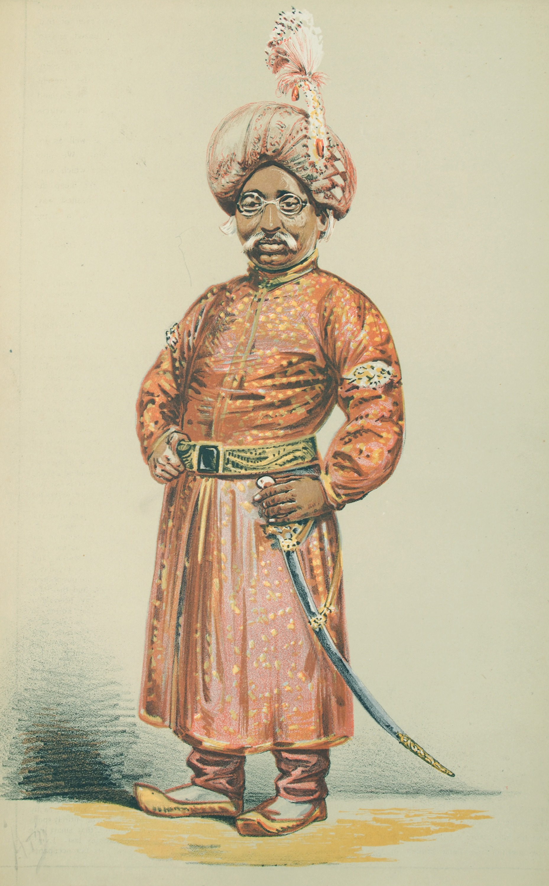 Caricature of Mansur Ali Khan, Nawab of Bengal (1830-1884). Caption read "A living monument of English injustice".